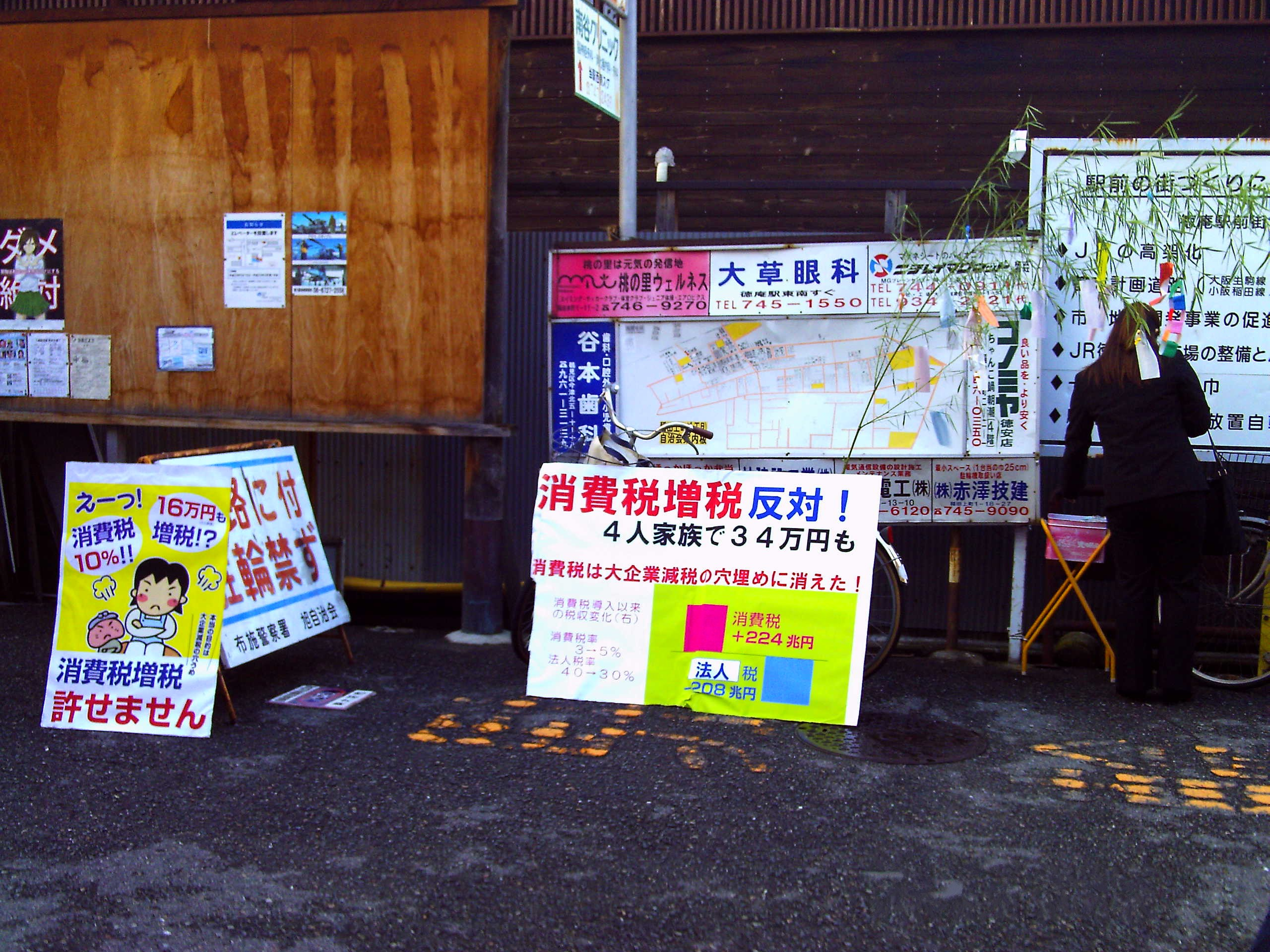 2010Election_Japanese_Communist_Party